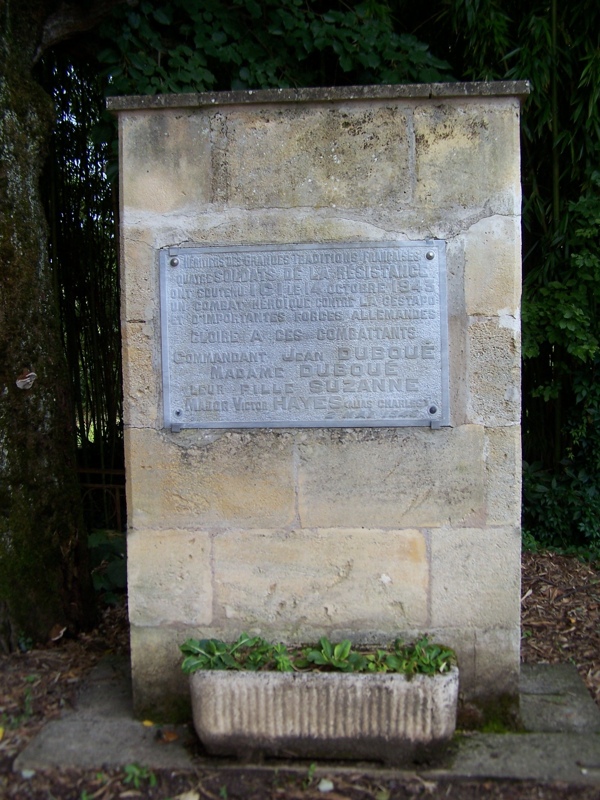 Memorial for Resistance in Lestiac-sur-Garonne (Gironde, France)